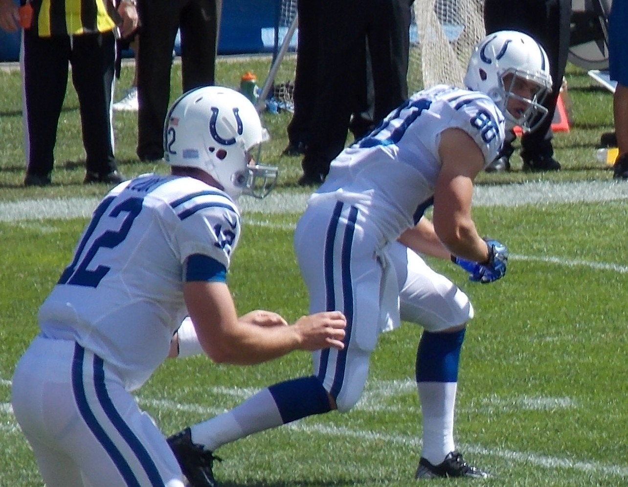 Quarterback, Andrew Luck, and tight end, Coby Fleener, in their NFL debut as Indianapolis Colts against the Chicago Bears.